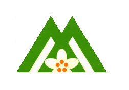 Flag of Iizuna Nagano